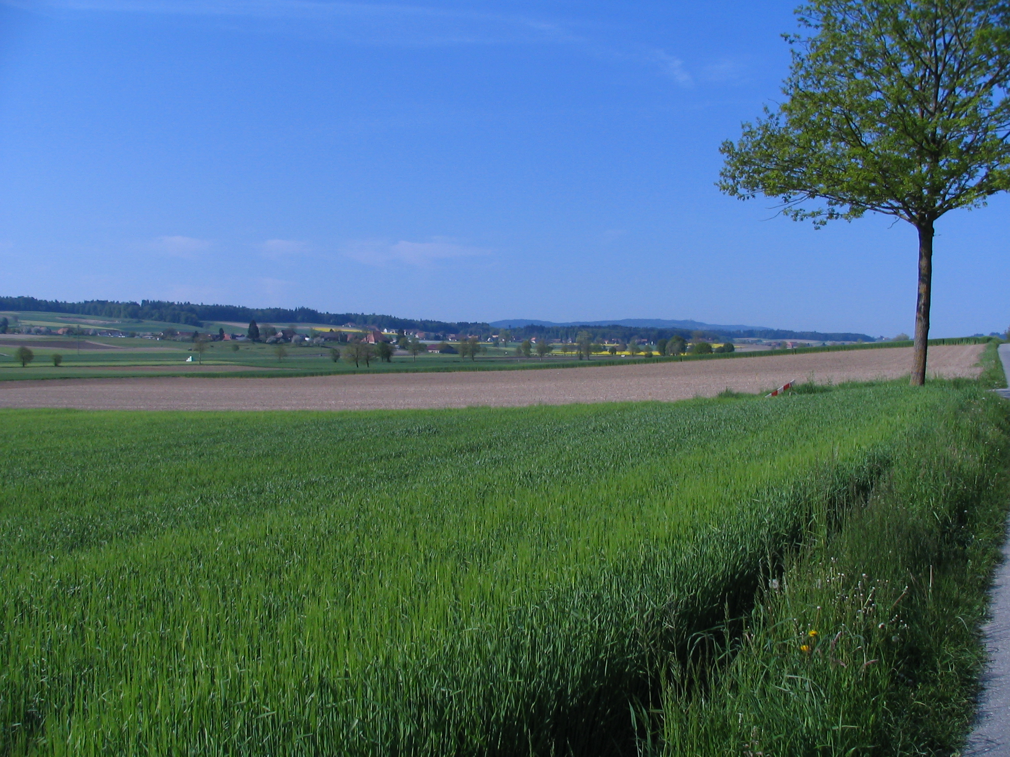 Limpachtal (valley of the river Limpach) in its western part near Wengi, Canton Bern (Switzerland)